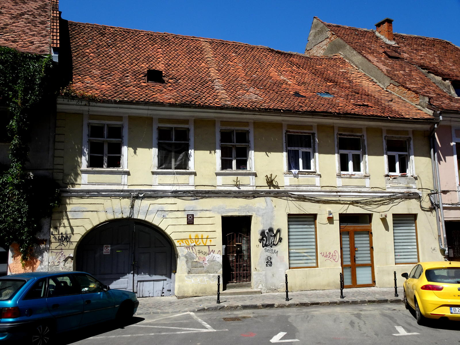 House in Bălcescu street, Brașov